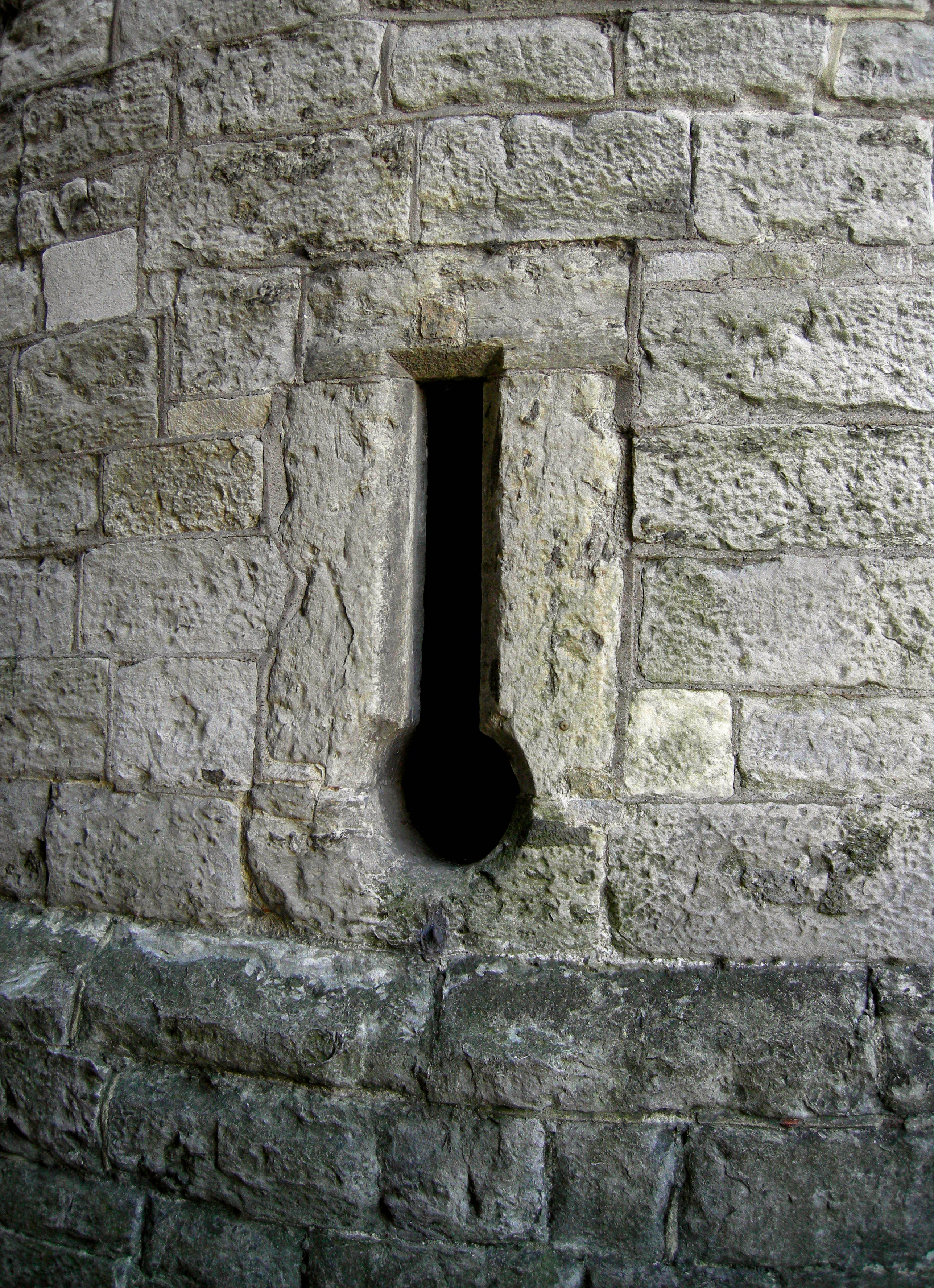 West Gate Towers and Museum, St Peter's Street, Canterbury, Kent. North tower with gunloop.